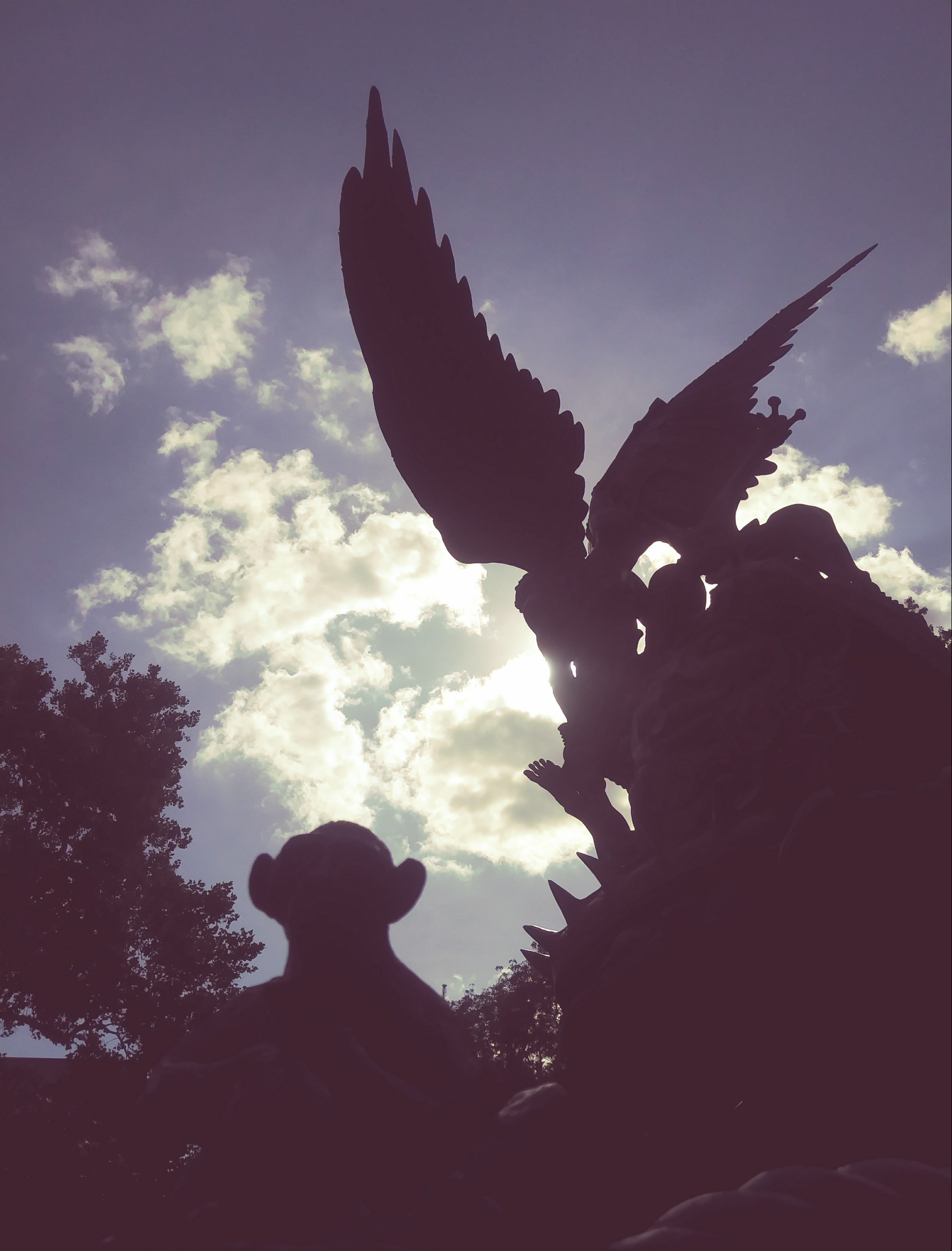 In the sculpture garden on the grounds of the Episcopal Cathedral of Saint John the Divine (which is a New York City Designated Landmark), a sculpture in the foreground a few inches high of a chimpanzee sitting on the ground, one of many small sculptures in the circle around the cathedral's 40 foot (12.3 meter) high Peace Fountain which is the thing with wings above and behind the chimp